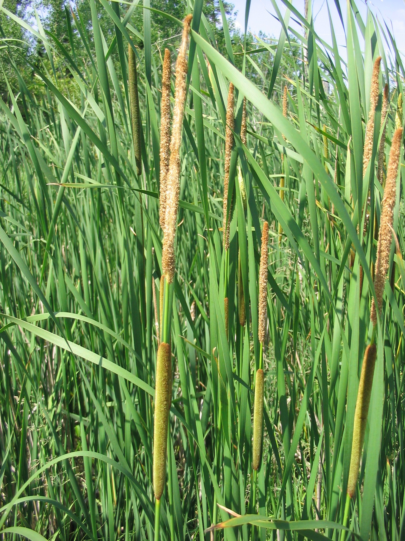 Typha_angustifolia_4-eheep